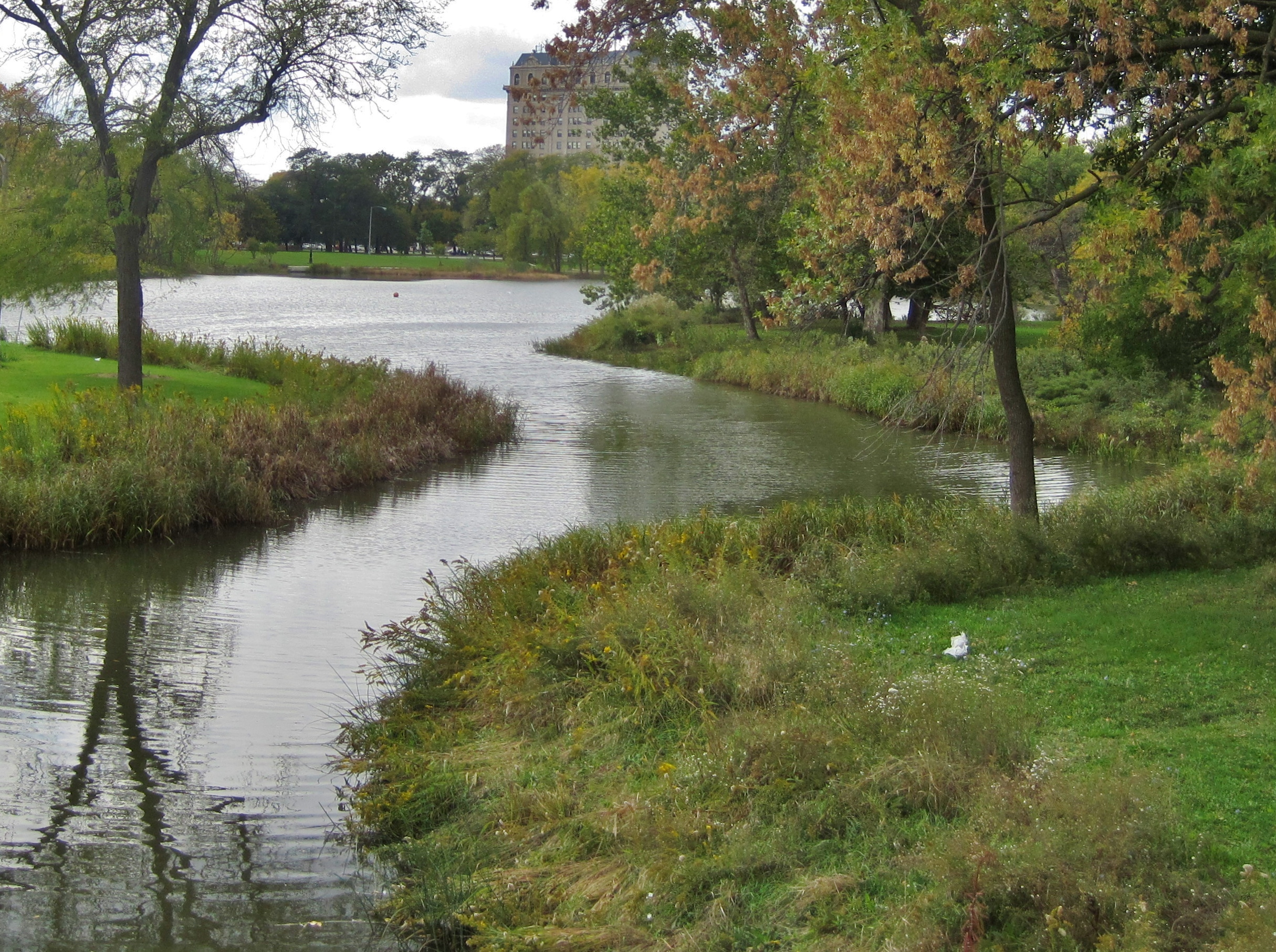 Garfield Park in Chicago (1874). The park was originally known as Central Park until it was renamed following the assassination of President Garfield in 1881. It was one of the three original parks on the West Side along with Humboldt and Douglas Parks. The park was originally designed by William Le Baron Jenney. The landscape was redesigned in the 1880s by Oscar F. Dubuis and then again by Jens Jensen in 1905 and 1920.